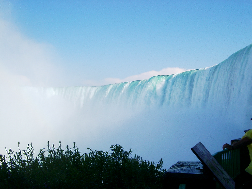 Niagara Falls - behind the falls on canadian site